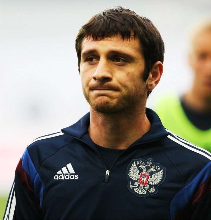 Alan Dzagoev